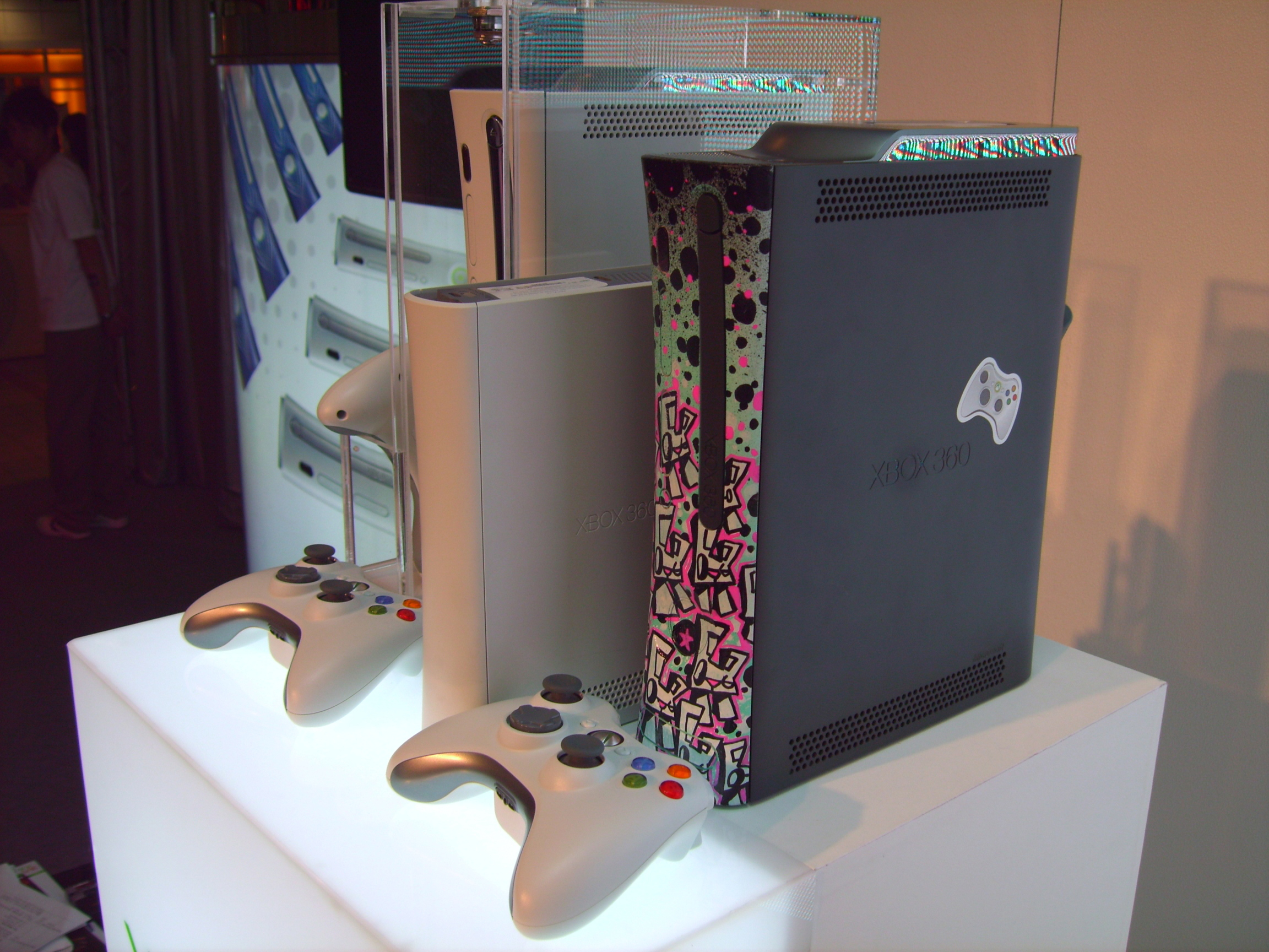 Rare Custom-Colored XBOX360 Console.